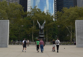 World War II East Coast Memorial